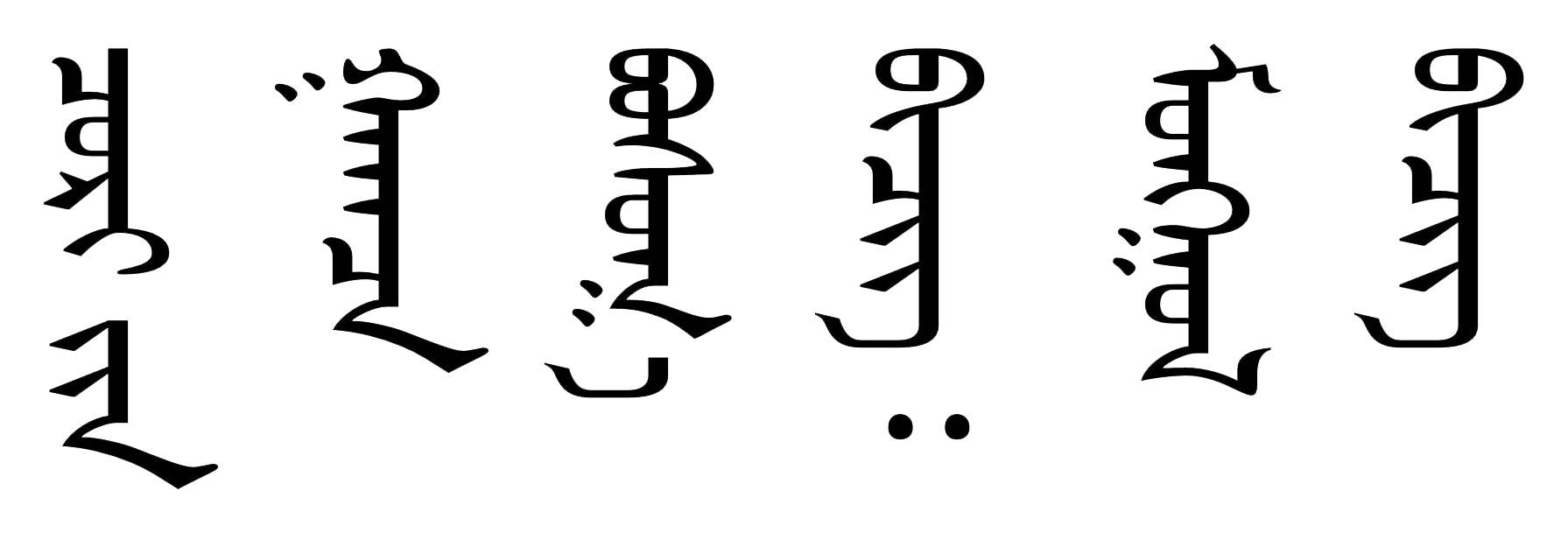 bosoo mongol bicig